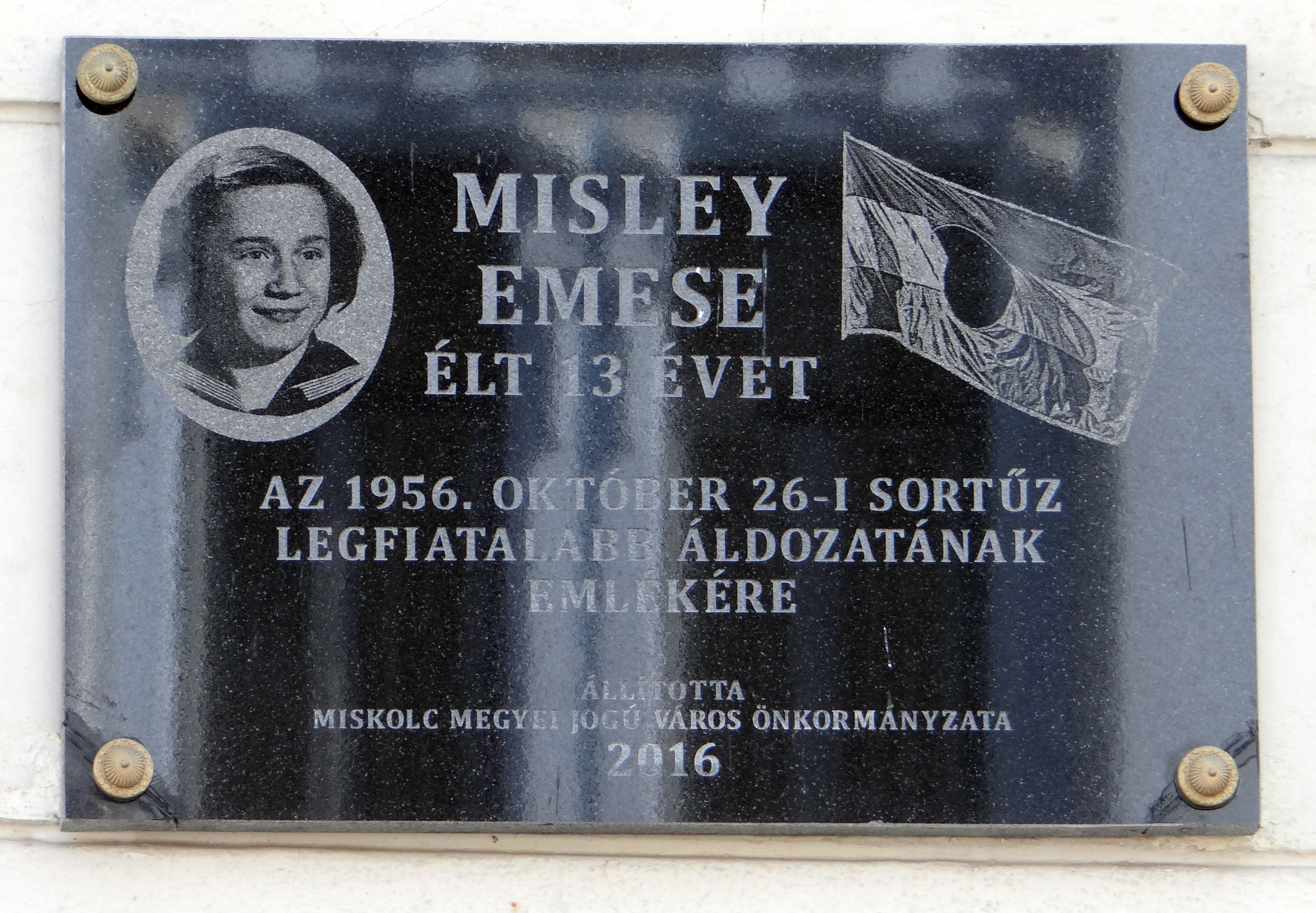 Plaque for Emese Misley, the youngest victim of shooting in 1956 Miskolc. 1 Munkácsy Street